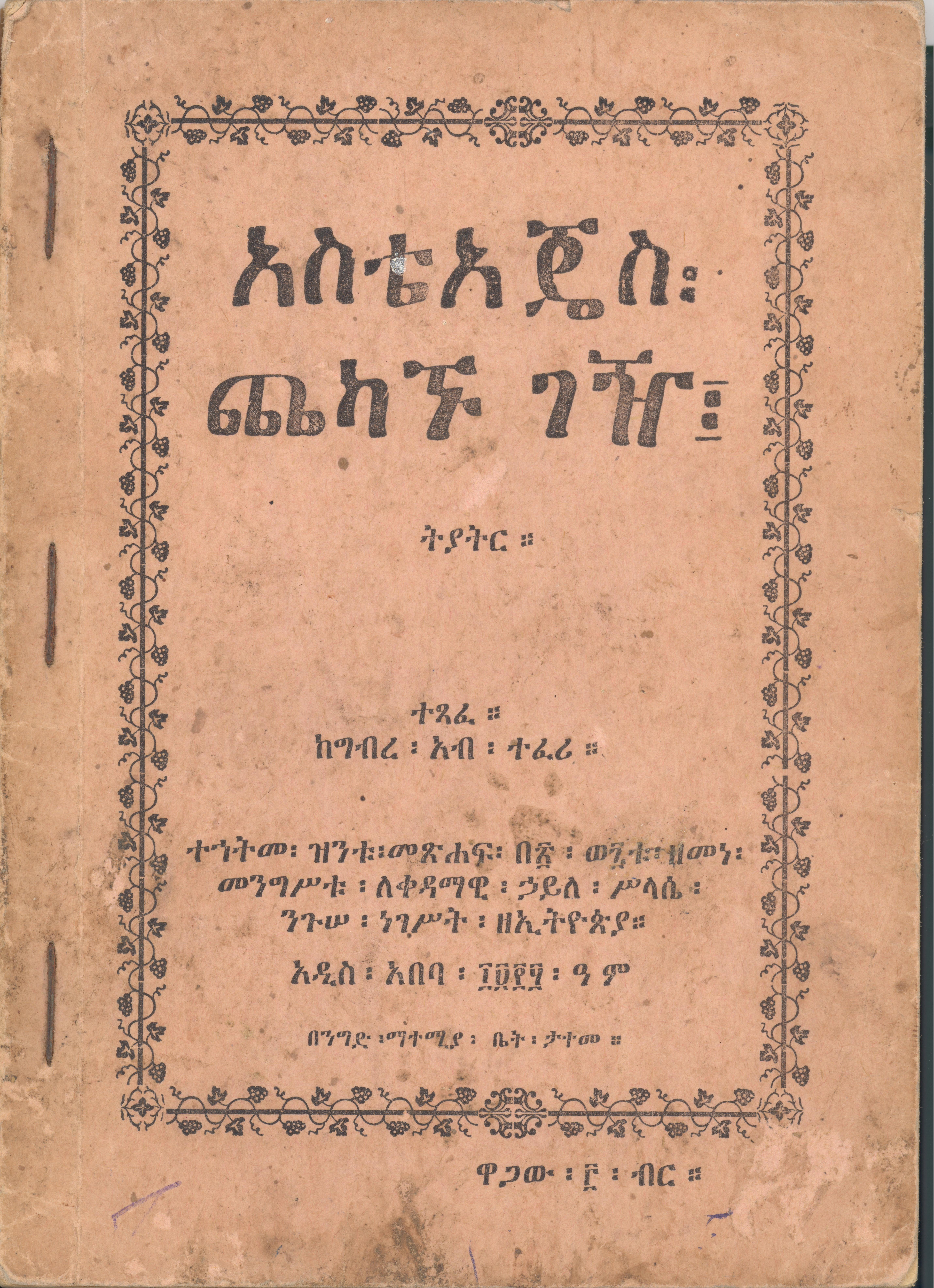 Cover page to "Astyages The Cruel Leader", by Gibreab Teferi Dasta